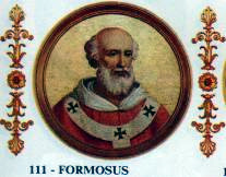 Pope Formosus in the Papal Basilica of St.Paul Outside the Walls, Rome